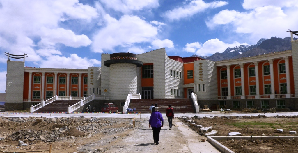 I took this photo on my trip to Tashkurghan in 2011.